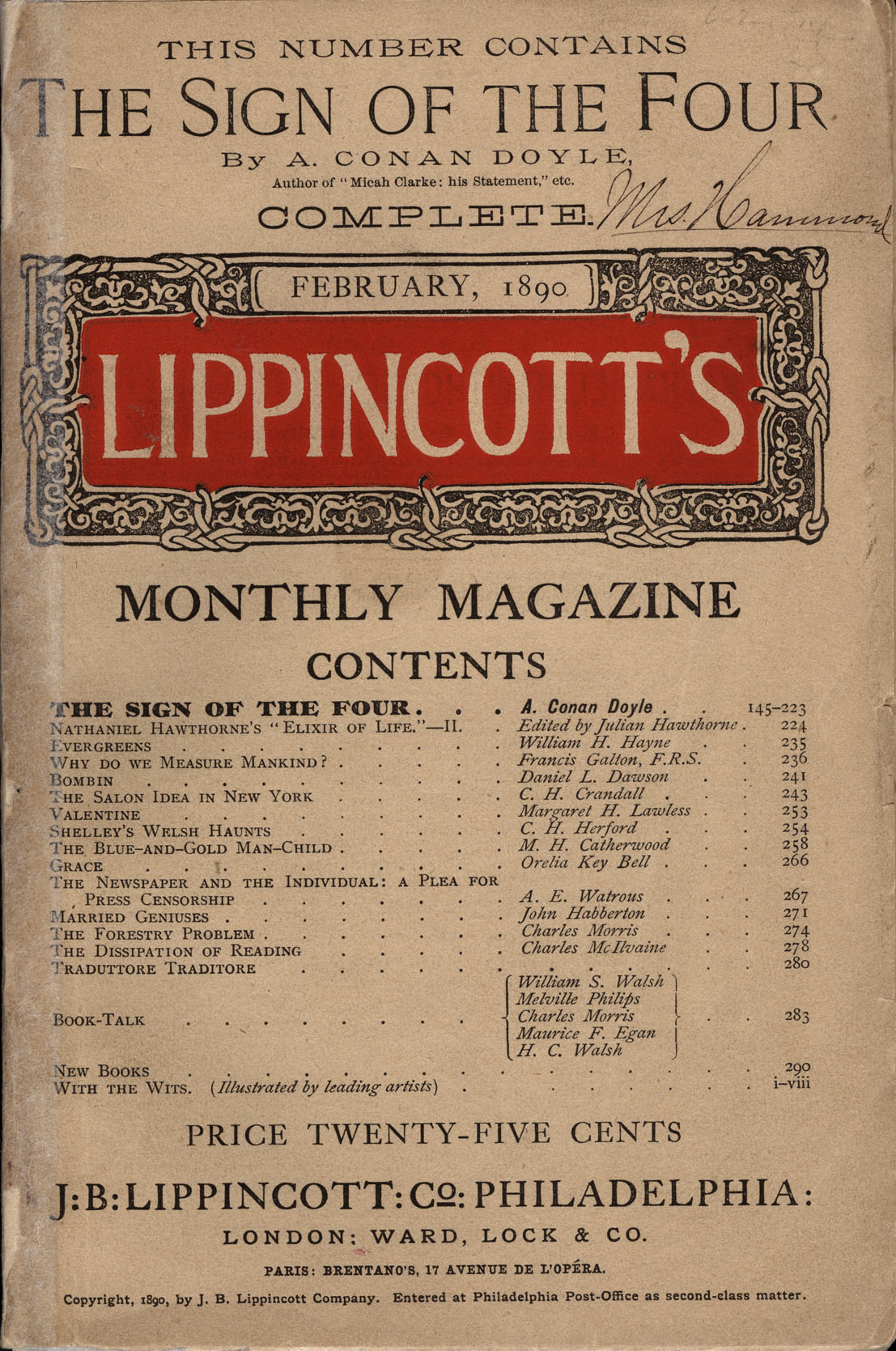 Title: "The Sign of the Four" in Lippincott’s Monthly Magazine Creator: Arthur Conan Doyle Date: 1890 Published: Philadelphia: Lippincott Identifier: 823.91 D598.64 1891; K2_Lippincotts-the-sign-of-the-four Format: Magazine Rights: Public domain Courtesy: Toronto Public Library The second novel featuring Sherlock Holmes was published simultaneously in U.S and British editions of Lippincott’s Monthly Magazine. This image is available from the Toronto Public Library under the reference number 823.91 D598.64 1891; K2_Lippincotts-the-sign-of-the-fourThis tag does not indicate the copyright status of the attached work. A normal copyright tag is still required. See Commons:Licensing for more information. English | français | +/−